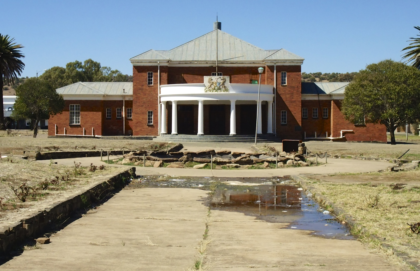 Town Hall in Winburg This media shows a South African Protected Site with SAHRA file reference 9/2/348/0011.